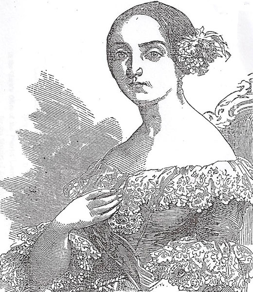 Anna Cooke-Beauchamp, wife of Jereboam O. Beauchamp Taken from The life of Jeroboam O. Beauchamp : who was hung at Frankfort, Kentucky, for the murder of Col. Solomon P. Sharp (1850), p. 2 published by D'Unger & Co. (Frankfort, Kentucky)